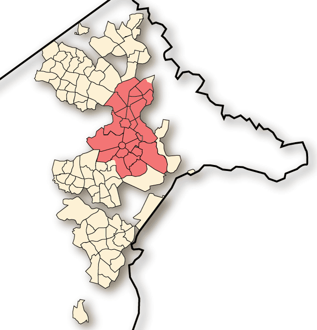 District of Canberra Central